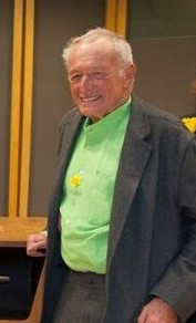 Richard Rogers at the Senedd (10th anniversary of opening of building), Cardiff, Wales.